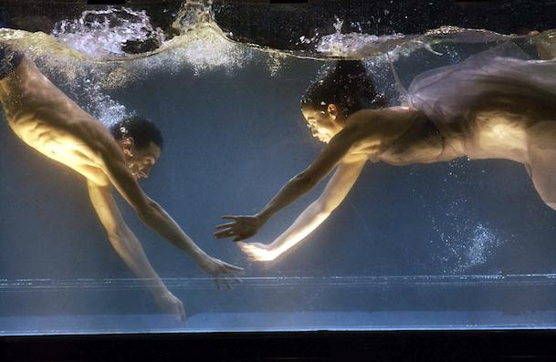 "Dido & Aeneas" (2005)